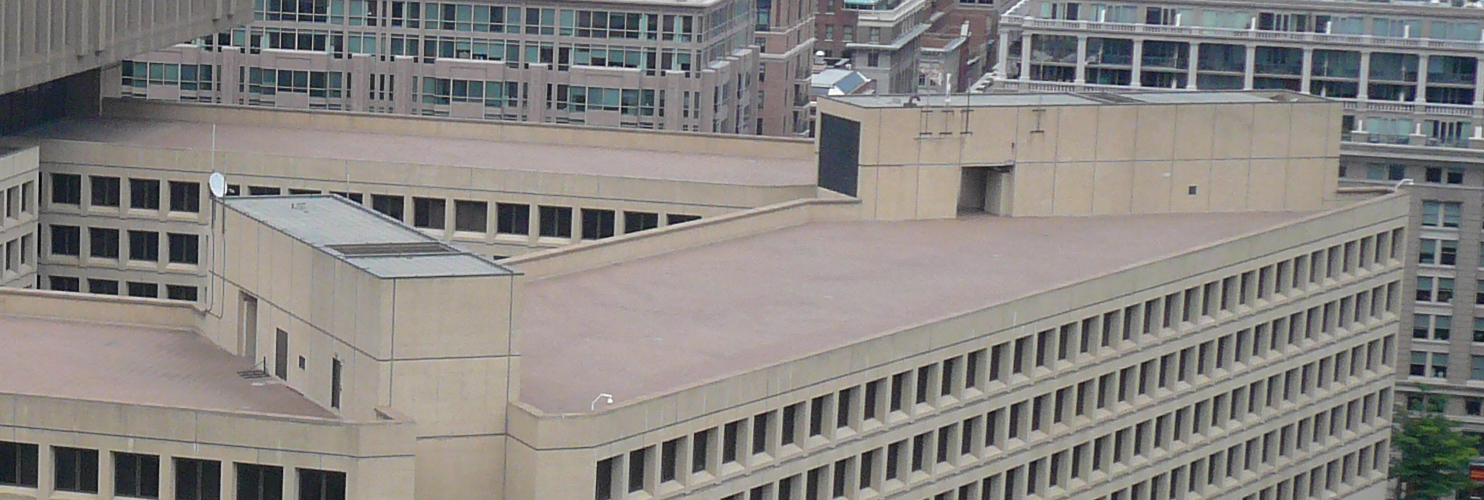 J. Edgar Hoover FBI building. Washington D.C., USA.